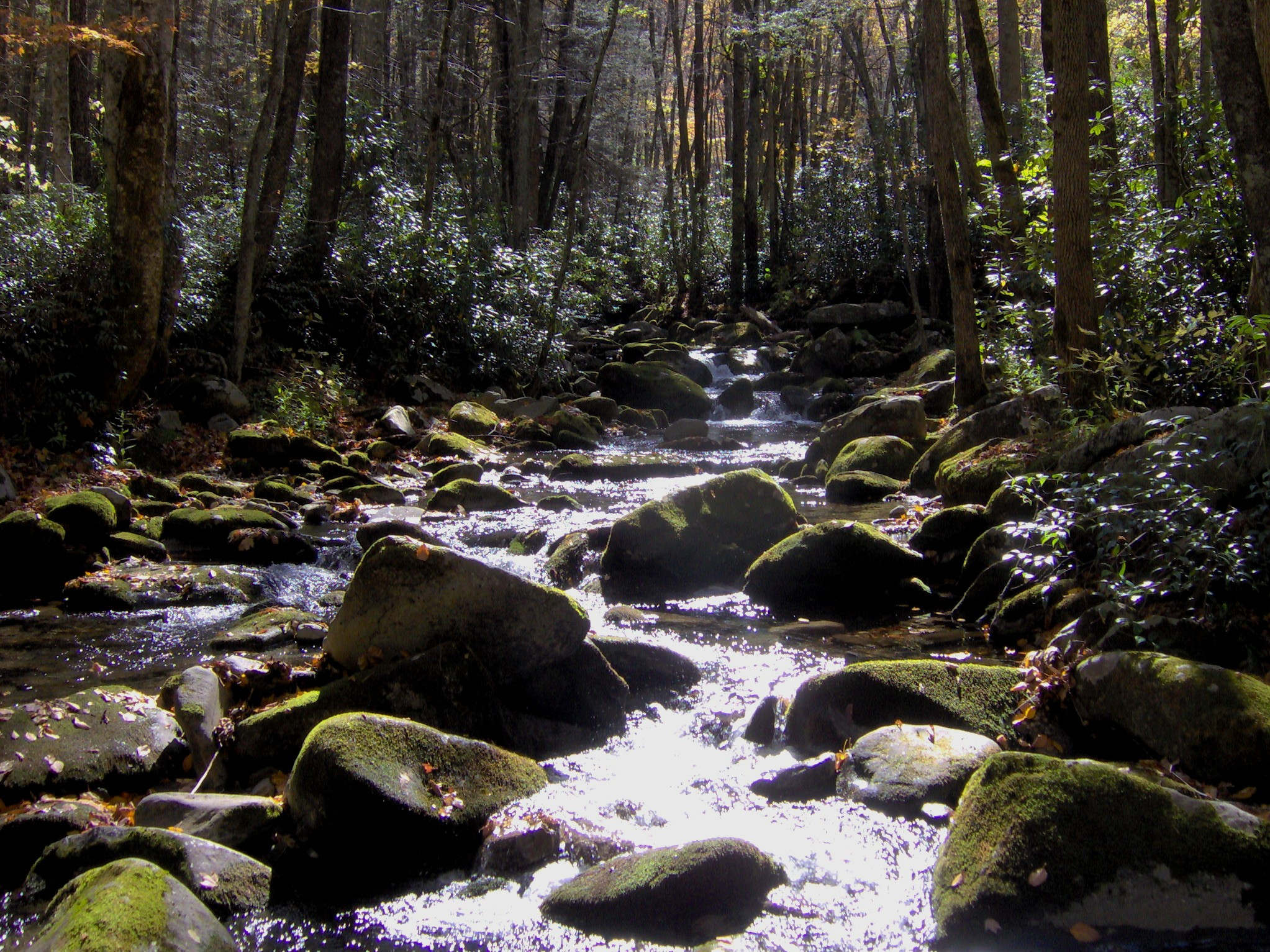 Little River at Three Forks, on the northern slopes of Clingmans Dome in the Great Smoky Mountains of East Tennessee. Little River starts as a small stream spilling over a sandstone-filled creek bed before its merger with Spud Town Branch, Kuwahi Branch, and several smaller streams at Three Forks. This area is the location of Campsite #30, which is the terminus of the Little River Trail.